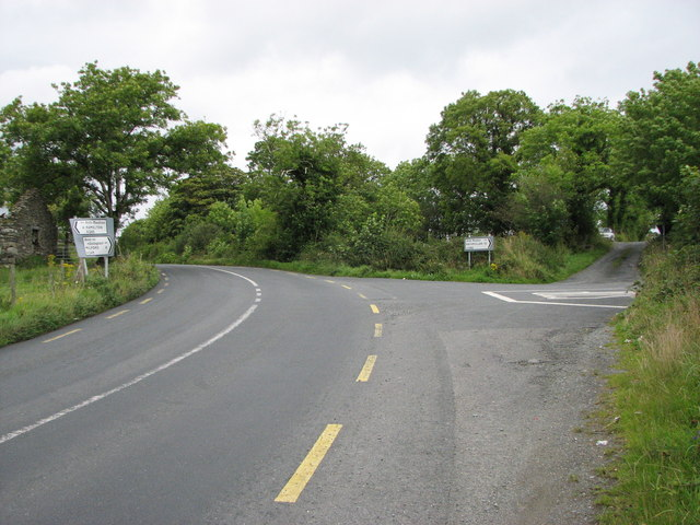 Crossroads, Fawninoughan Crossroads in the townland of Fawninoughan.The main road is the R245 from Letterkenny to Millford and the small side road directly on the right is the L1392 to Rathmullan.The small laneway going directly ahead leads up to a farm.